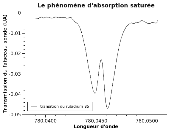 Example of photodiode response in a saturated absorption experiment. Labels in French. Wavelength axis not perfectly calibrated.